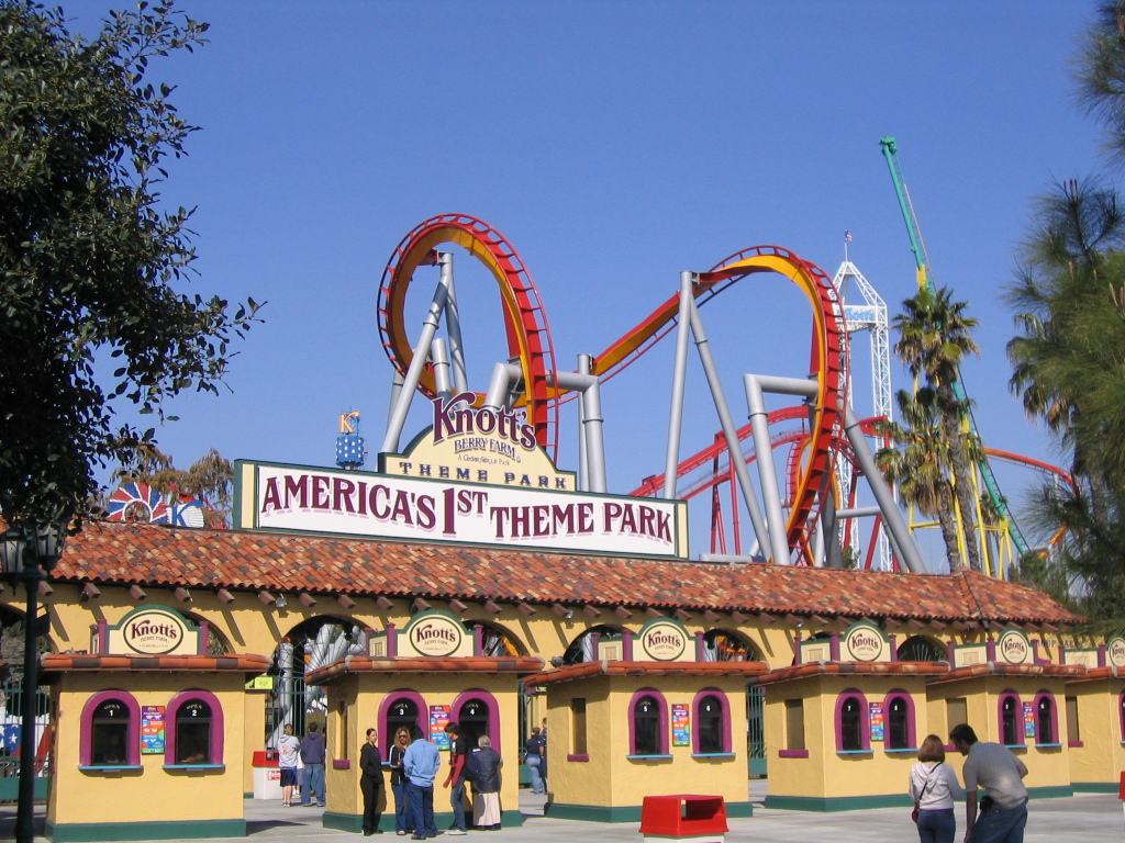 The entrance of Knott's Berry Farm, Buena Park, California, USA